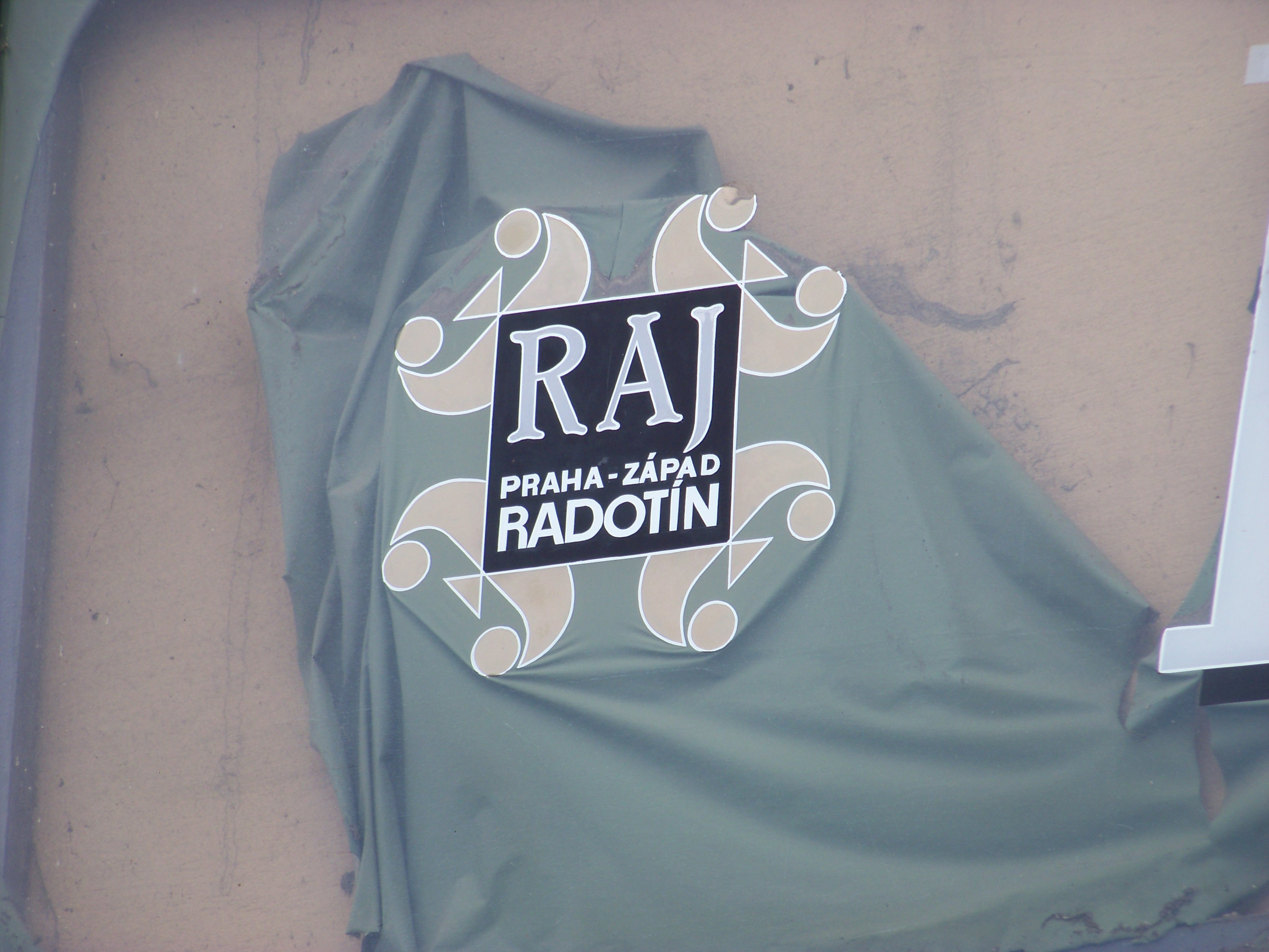 Roztoky, Prague-West District, Central Bohemian Region, Czech Republic. Nádražní 56, U nádraží restaurant.